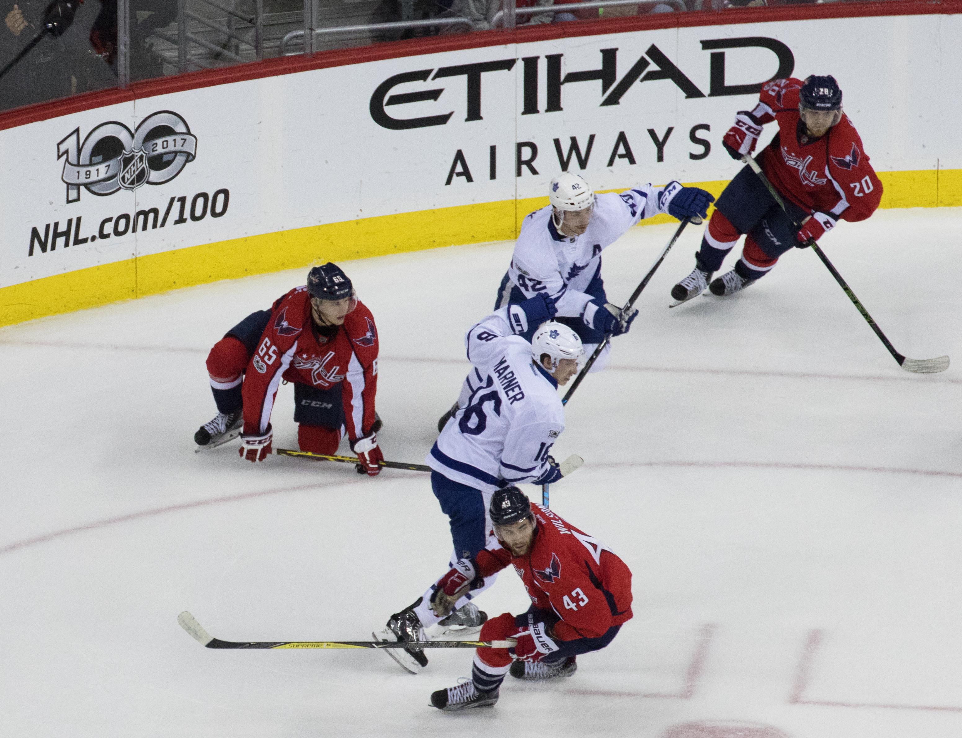 NHL 2017 Playoffs, Round 1, Game 5: Capitals 2, Toronto Maple Leafs 1